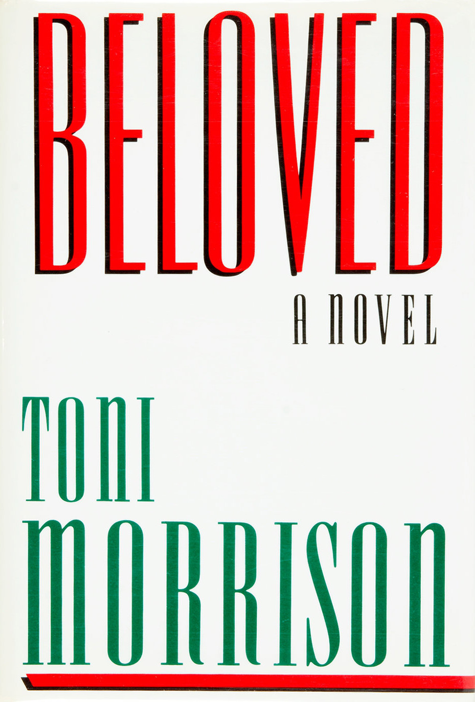 First-edition dust jacket cover of Beloved (1987) by the American author Toni Morrison.